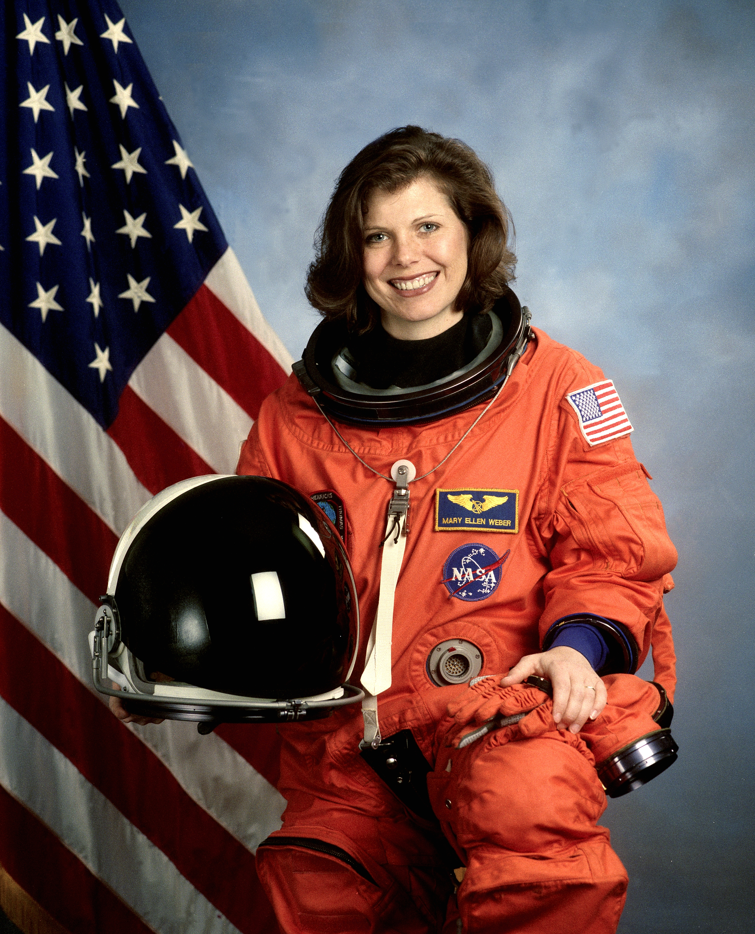 Astronaut Mary Ellen Weber, mission specialist.